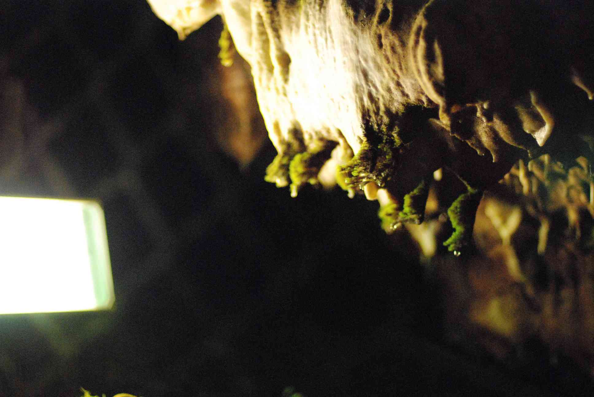 cave pollution caused by ultraviolet light emitted through fluorescent lamps, Bärenhöhle, Baden-Württemberg, Germany